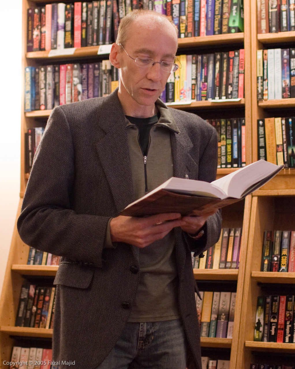 Canadian novelist Steven Erikson reading a book.